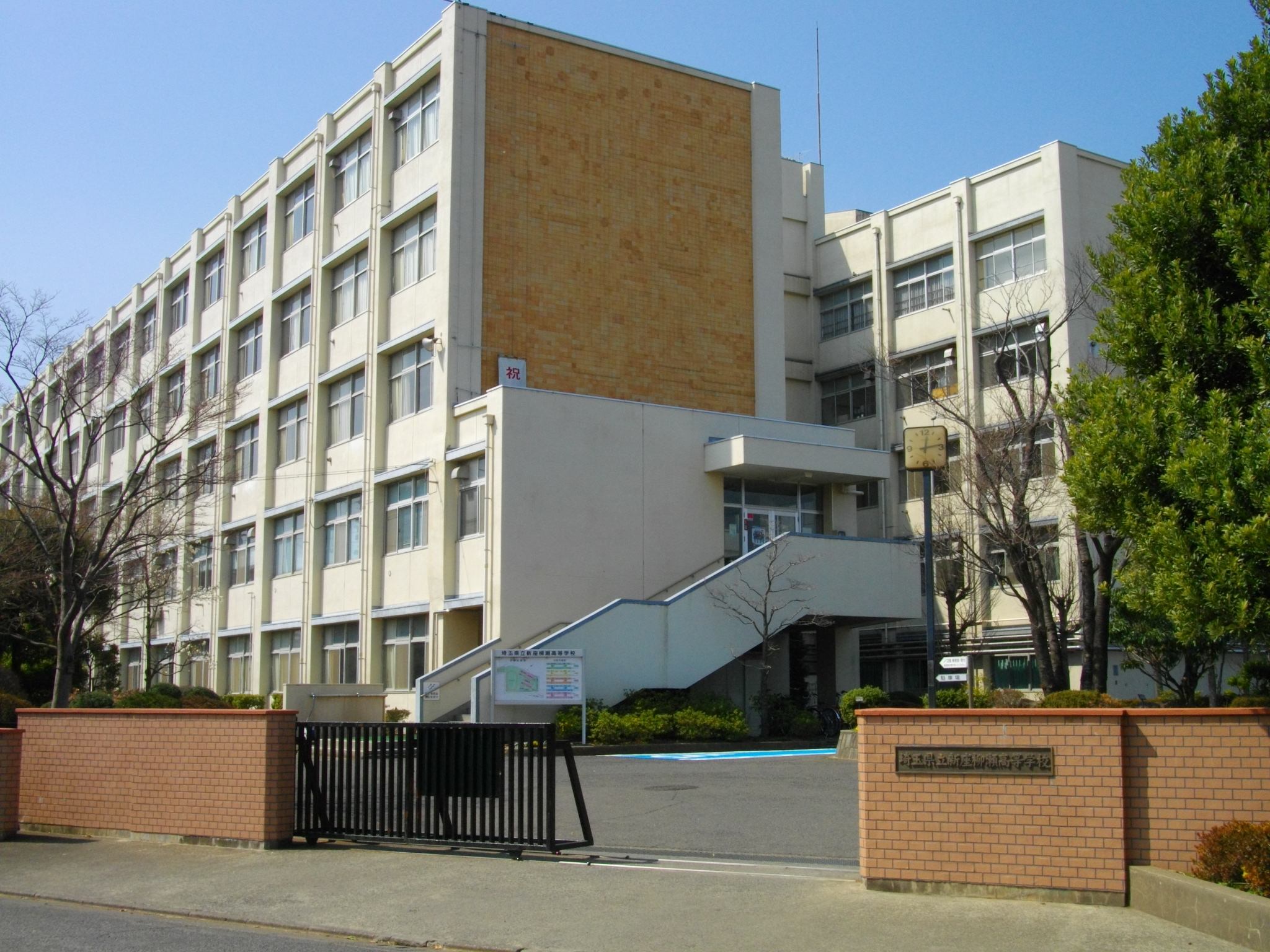 Niiza Yanase High School